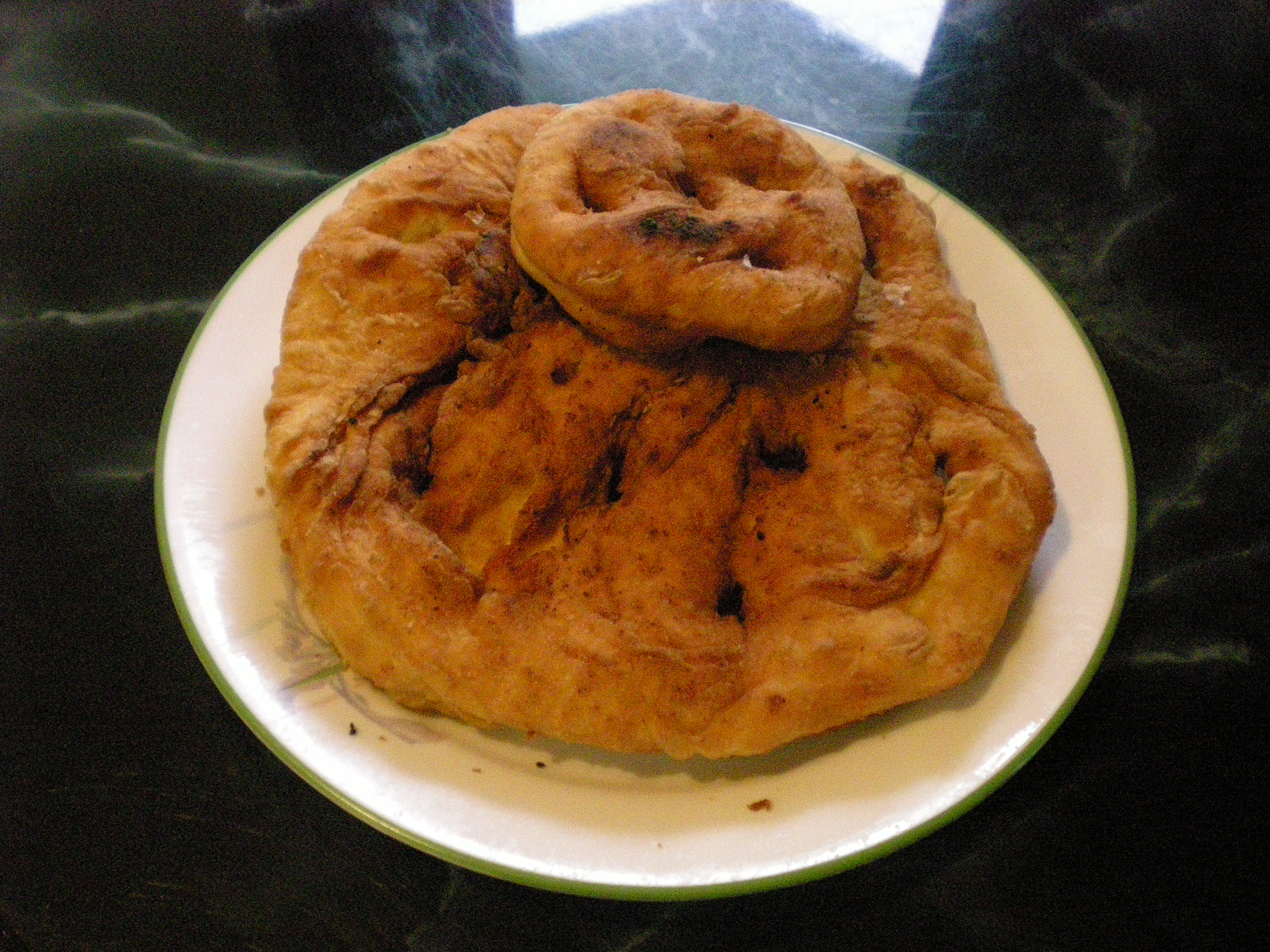 Inuit bannock, a type of flat quickbread.